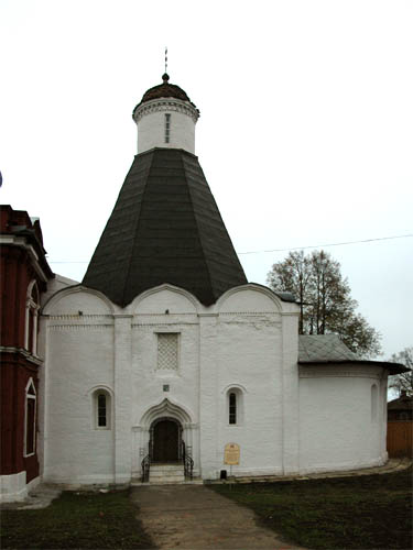 Brusensky Monastery in Kolomna. Krestovozdvizhensky Cathedral